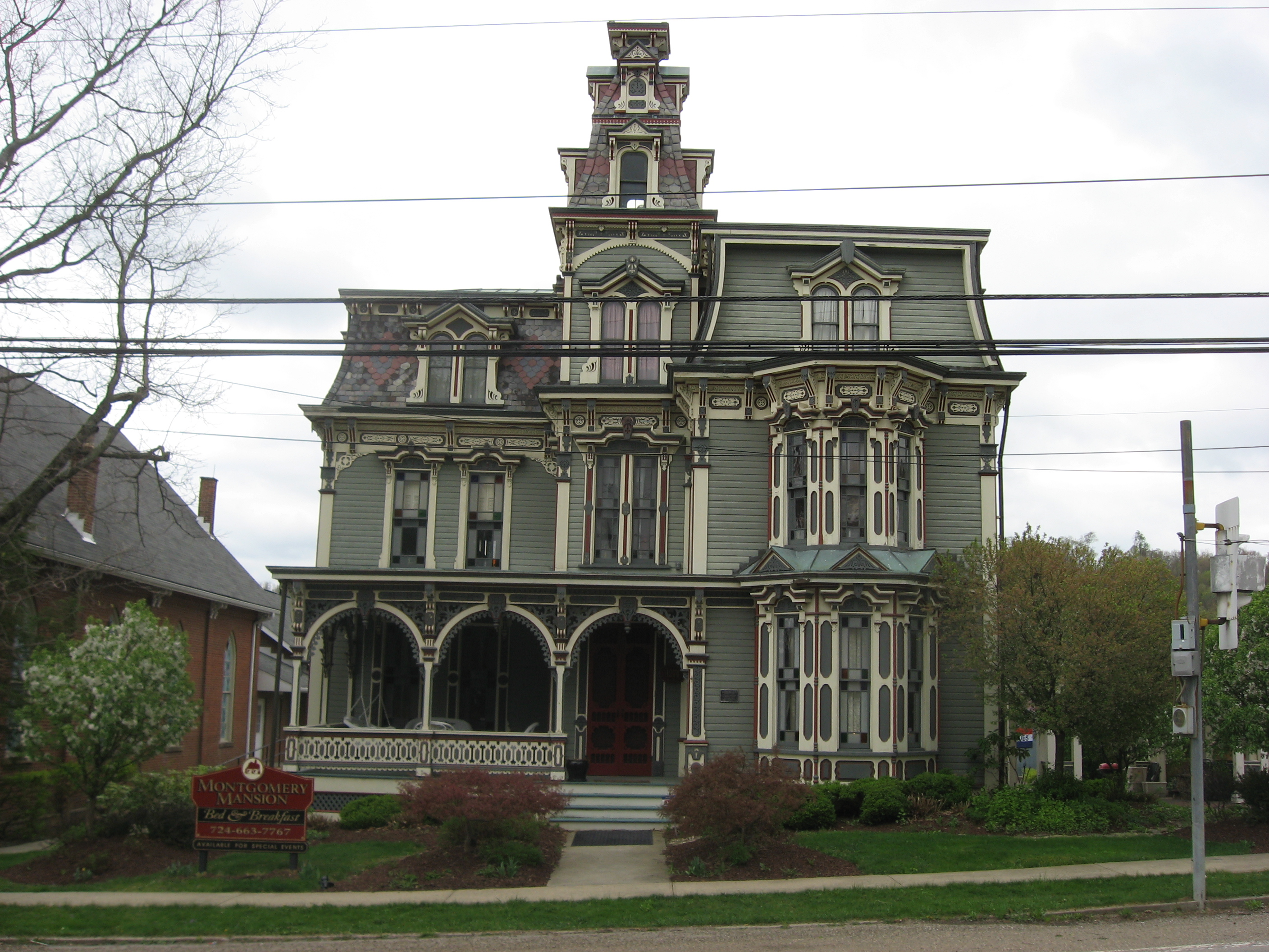 Front of the Montgomery House, located at 1274 U.S. Route 40 (Main Street) in Claysville, Pennsylvania, United States. Built in 1880, it is listed on the National Register of Historic Places.